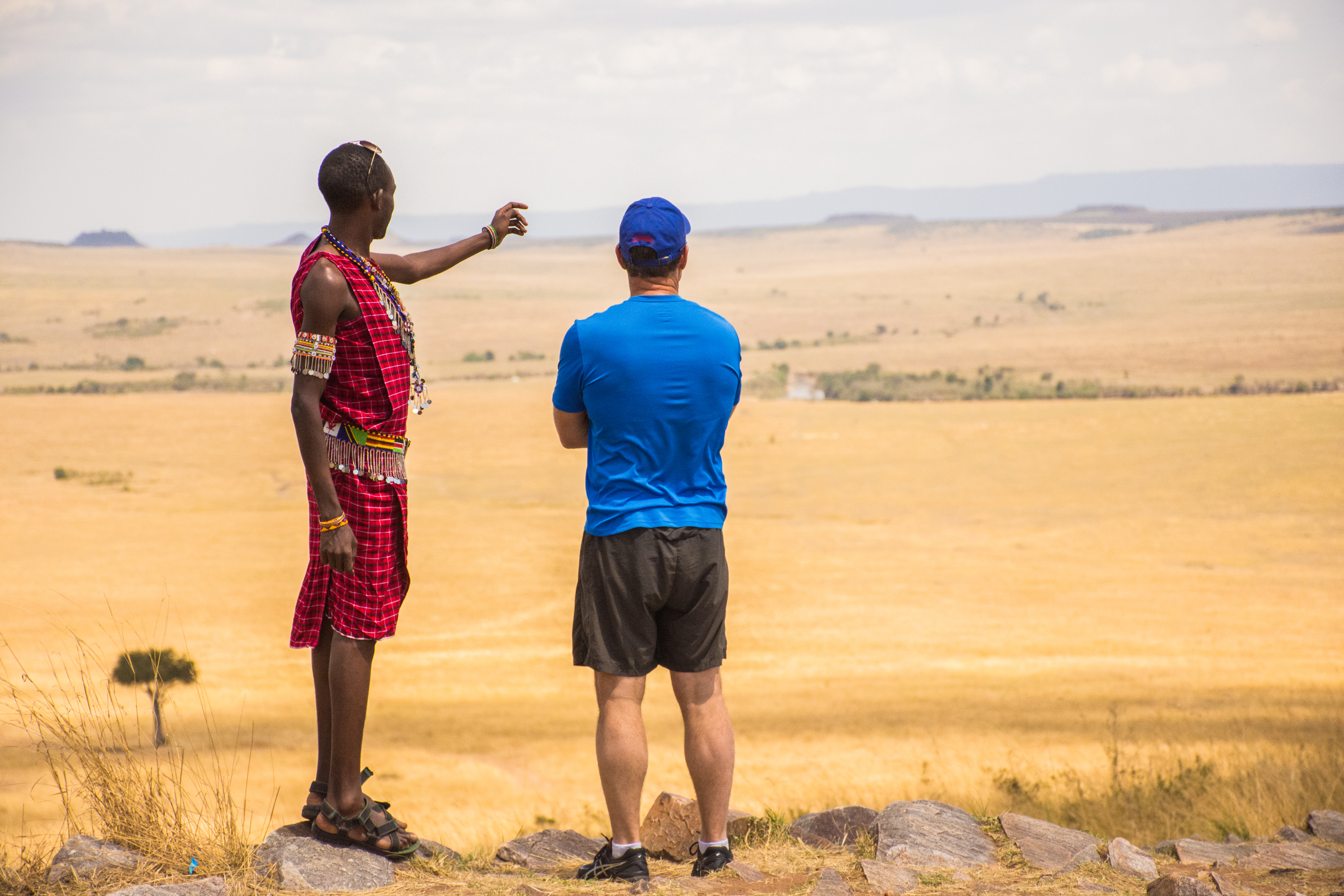 This photo was taken in the Masai Mara and represents a type of work that involves the incorporation of cultural knowledge and work. This is a Masai guide who makes tourists' experience more authentic and uses his acquired knowledge of the Masai Mara to make a living. This is an image of "African people at work" from Kenya